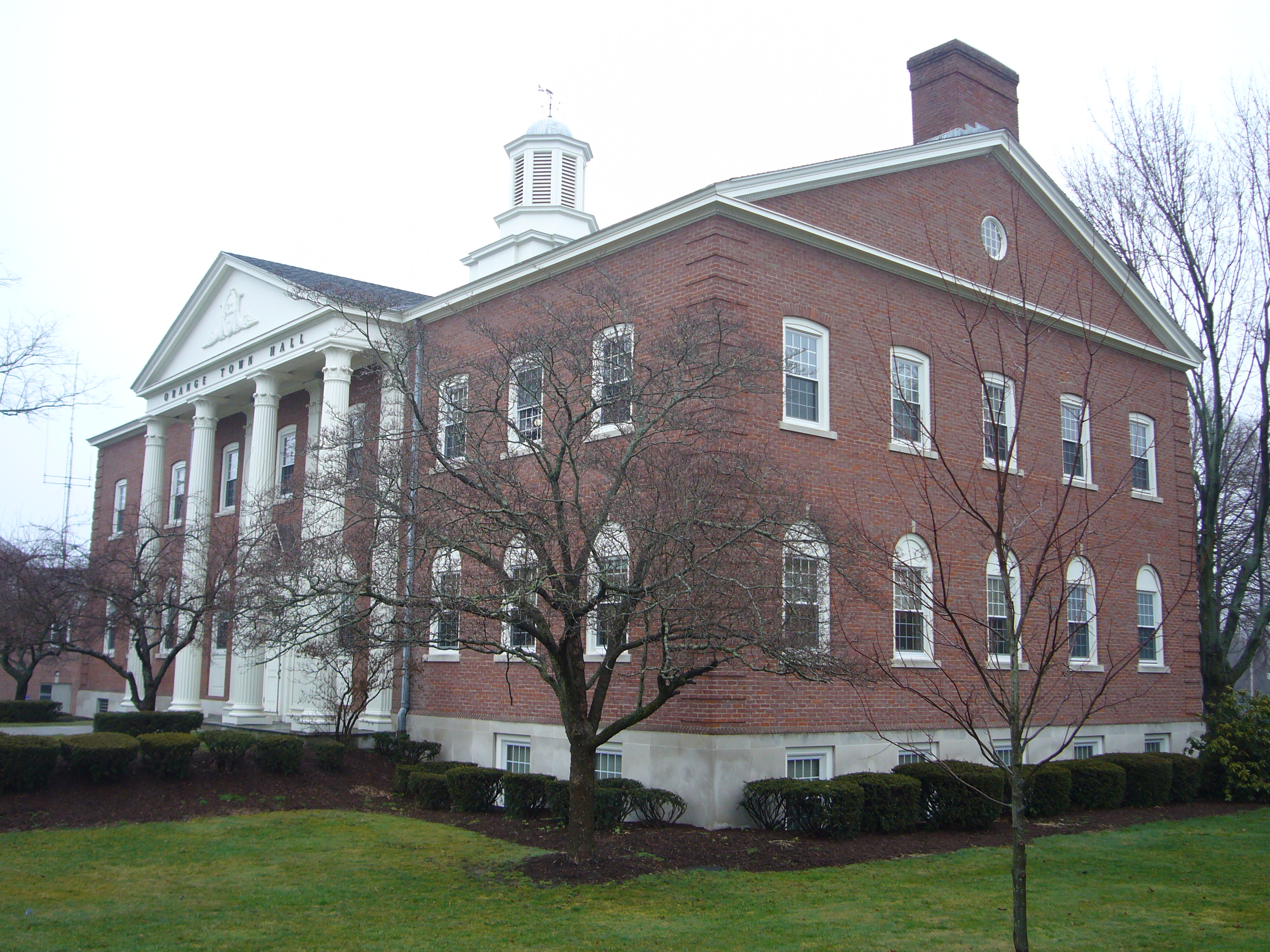 Town Hall (exterior), Orange, CT, USA